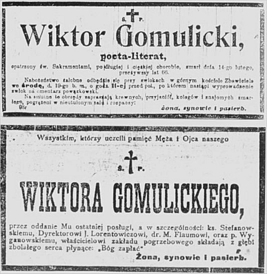 Wiktor Gomulicki (1848-1919), Polish writer (obituary notice)